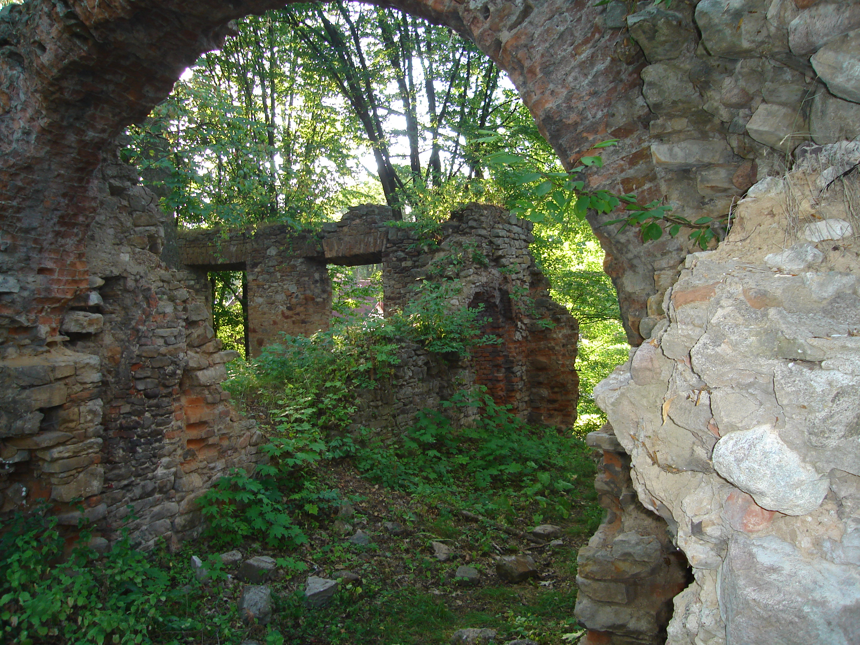 Fałków, Poland - ruins of the castle